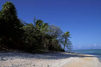 Beach east of lagoon antrance of Nikumaroro (formerly Gardner) Island, Phoenix Islands, Kiribati. Original field notes: Vegetation here is almost exclusively native (indigenous - that is, found elsewhere, but also here naturally): pandanus or screwpine (long, leathery, spirally arranged leaves on far left), kou (yellow leaves), tree heliotrope (bending down under coconut palm). A good turtle beach. This is a wet island, the most luxuriant of all 9 Phoenix Islands.